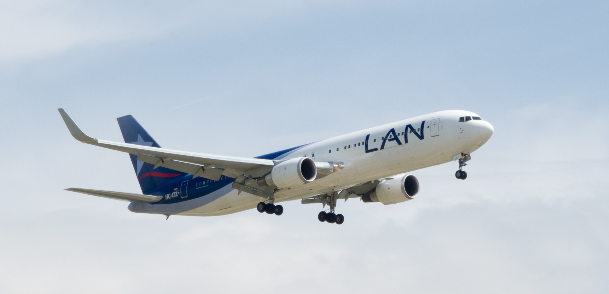 Boeing 767-316-ER of LAN Ecuador.